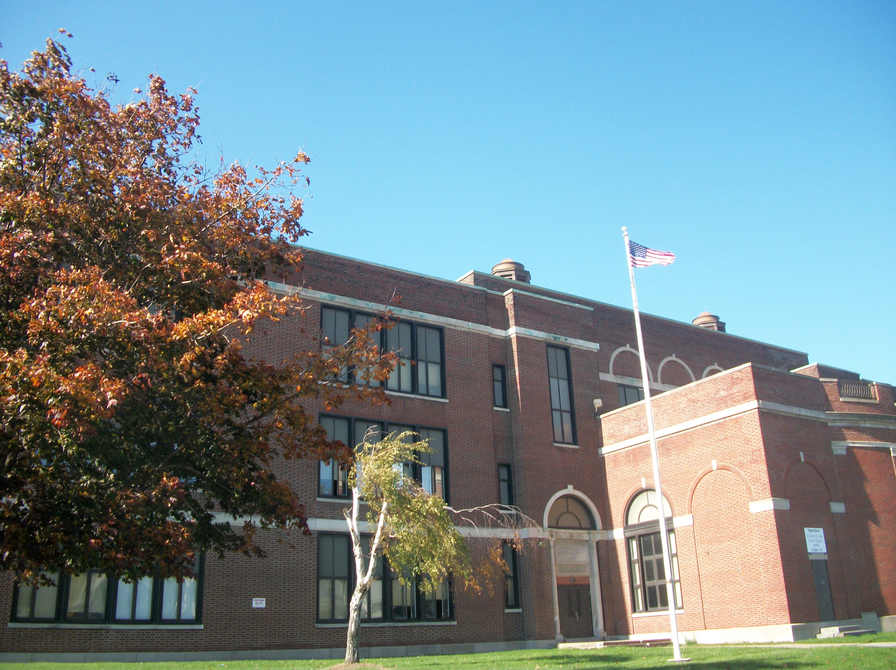 PS 11 Poplar Academy 100 Poplar Avenue Buffalo, NY 14211